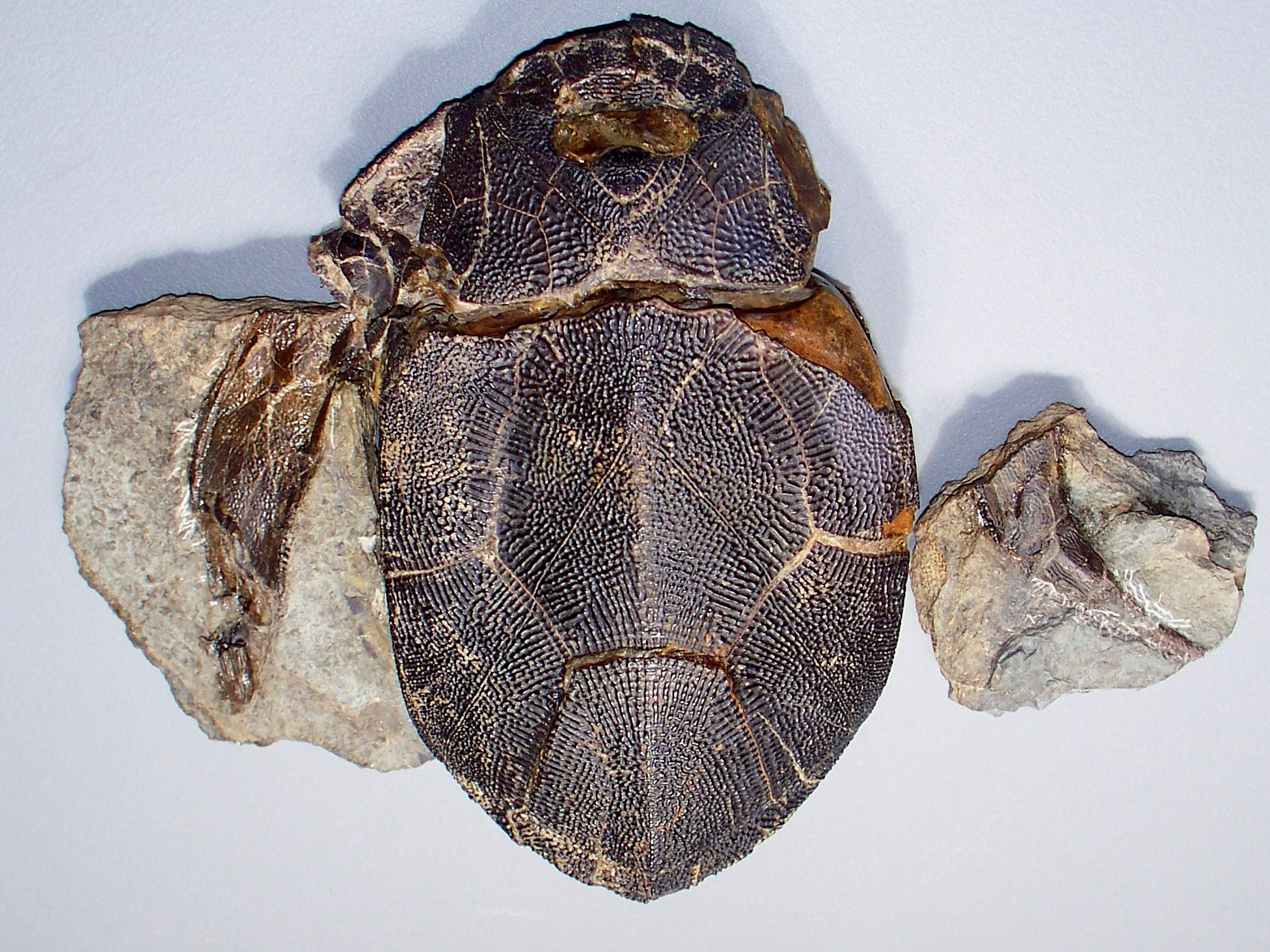 bothriolepis canadensis